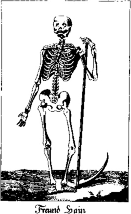 Death reaper as "Freund Hain" ("friend Henry"). Copper engraving.